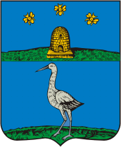 Gvozdevka (Gvozdev, Voronezh oblast), coat of arms (1781)